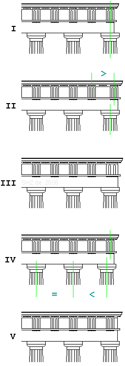 'doric corner conflict' at greek temples: wooden archaic (broader corner triglyph) classic doric roman-doric